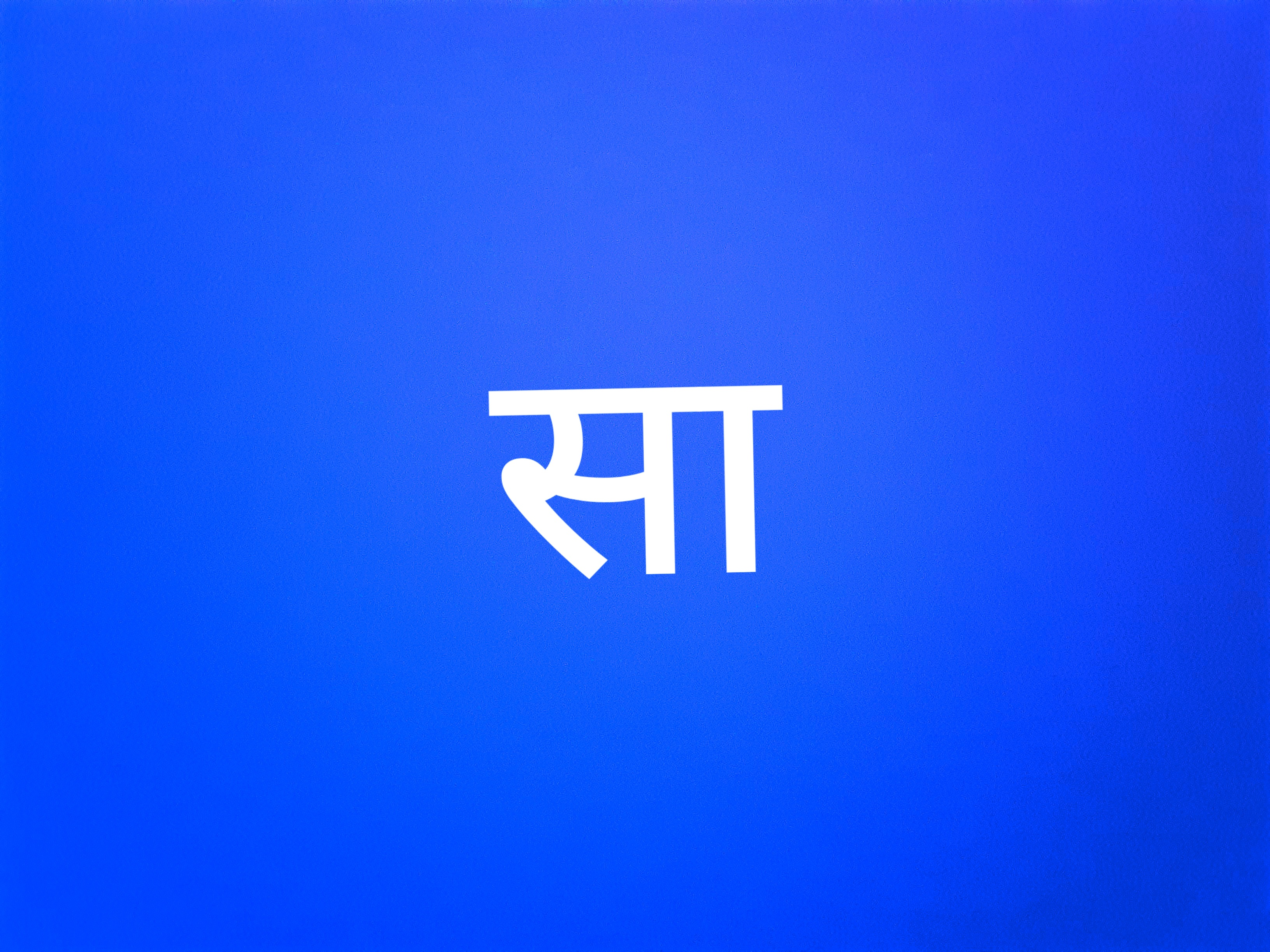 Ṣaḍja (Sa) image